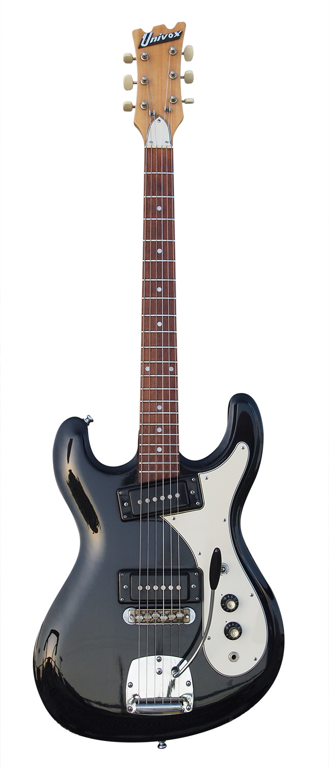 Black Univox HiFlier U-1802